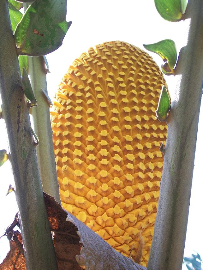 Cone of young stem of Encephalartos woodii at Durban Botanic Gardens